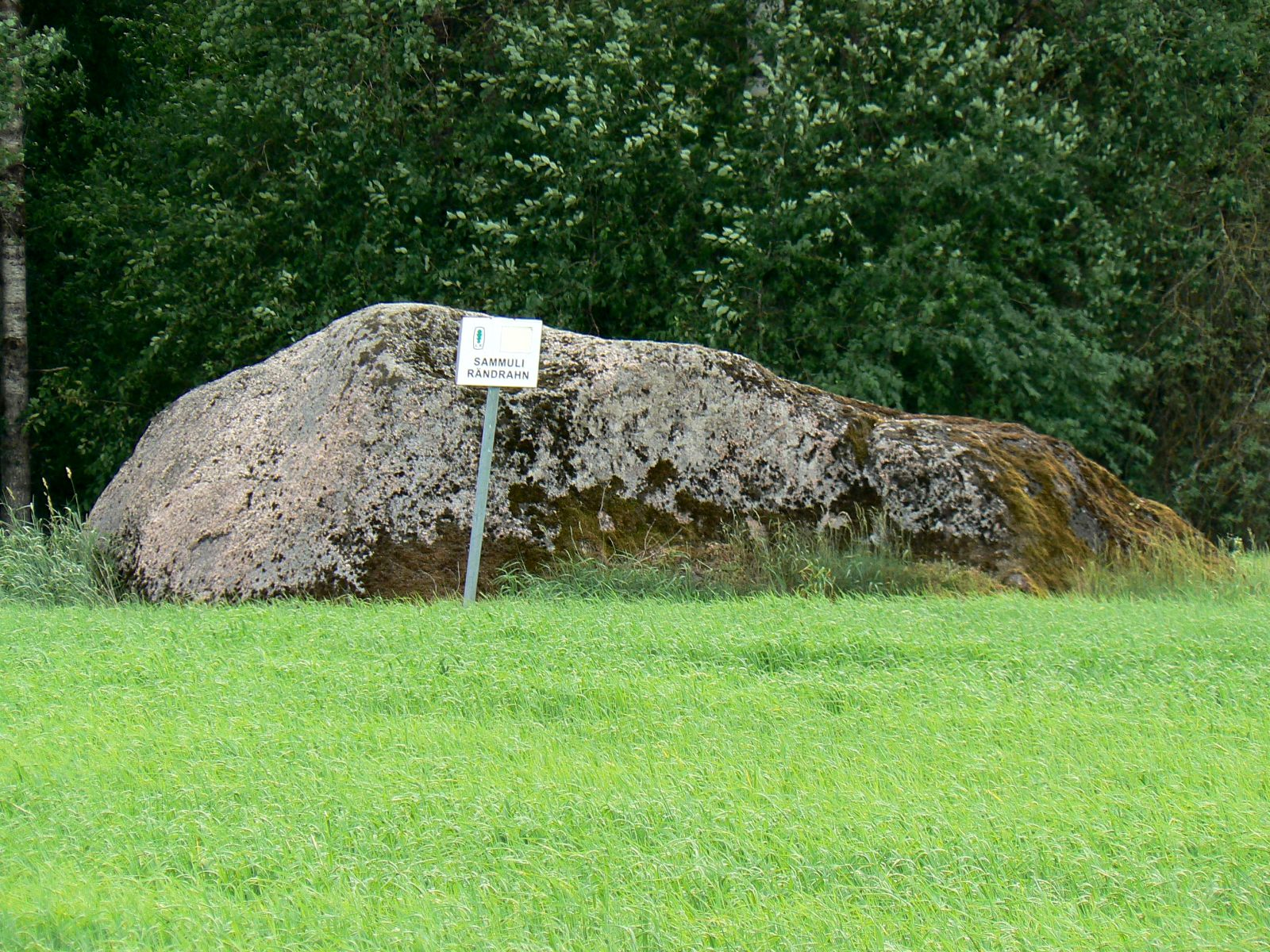 The Sammuli glacial erratic in Estonia